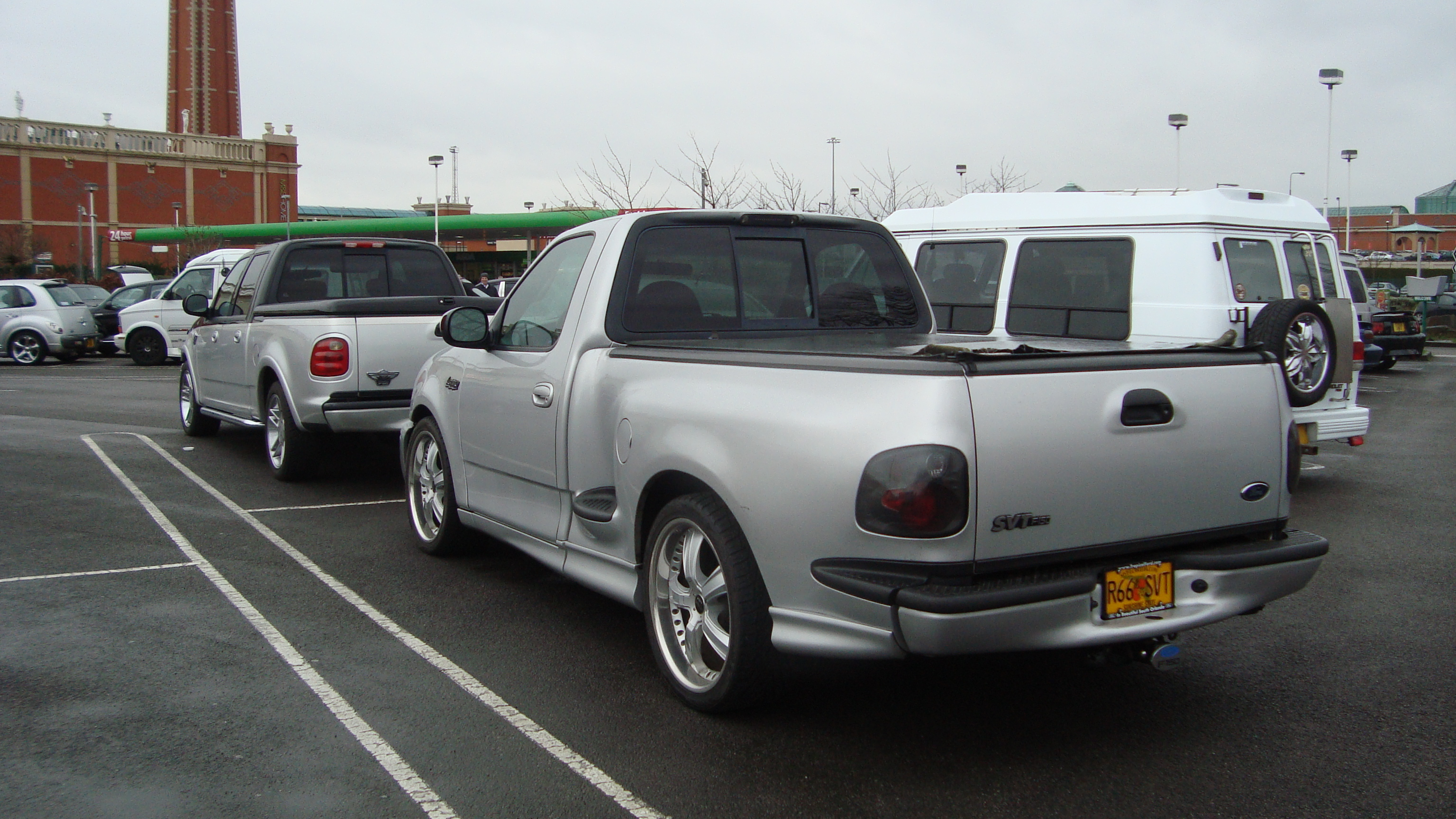 2003 Ford F150 Harley Davidson And 2001 Ford F150 Lightning